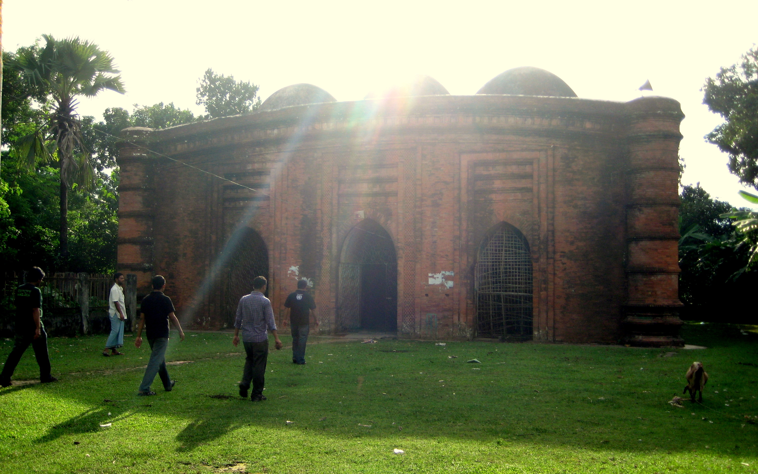 Nine-Dome Mosque is located on the western bank of the Thakurdighi, less than half a km away to the southwest of the tomb-complex of Khan Jahan. The mosque is now a protected monument of the Department of Archaeology, Bangladesh. It is a brick-built square structure measuring about 16.76m externally and 12.19m internally. The 2.44m thick walls on the north, south and east sides are pierced with three arched-openings on each side; the central one, set within a rectangular frame, is larger than the flanking ones.